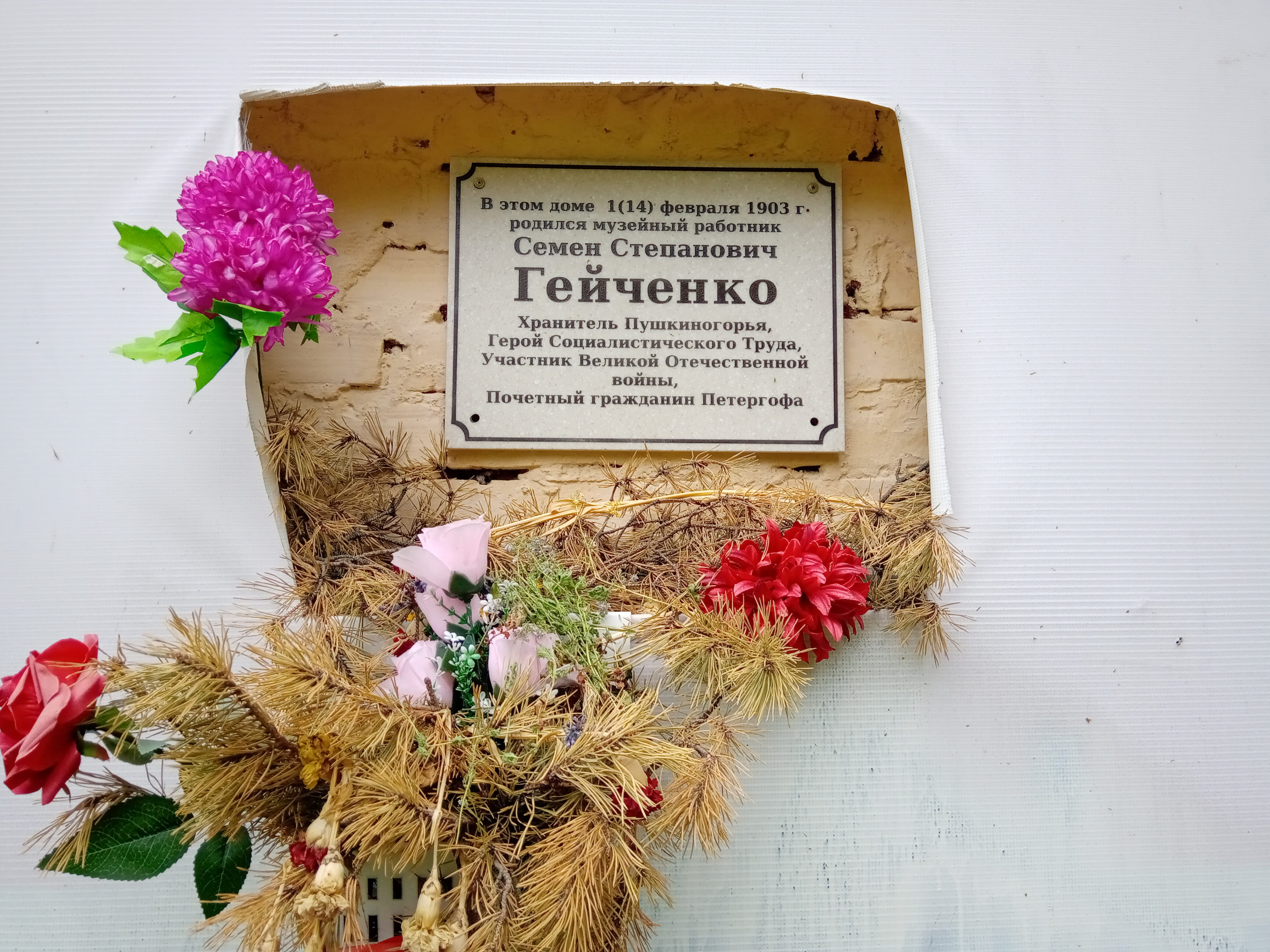 Memorial plaque on a half-abandoned building in Peterhof, where S. S. Geychenko was born